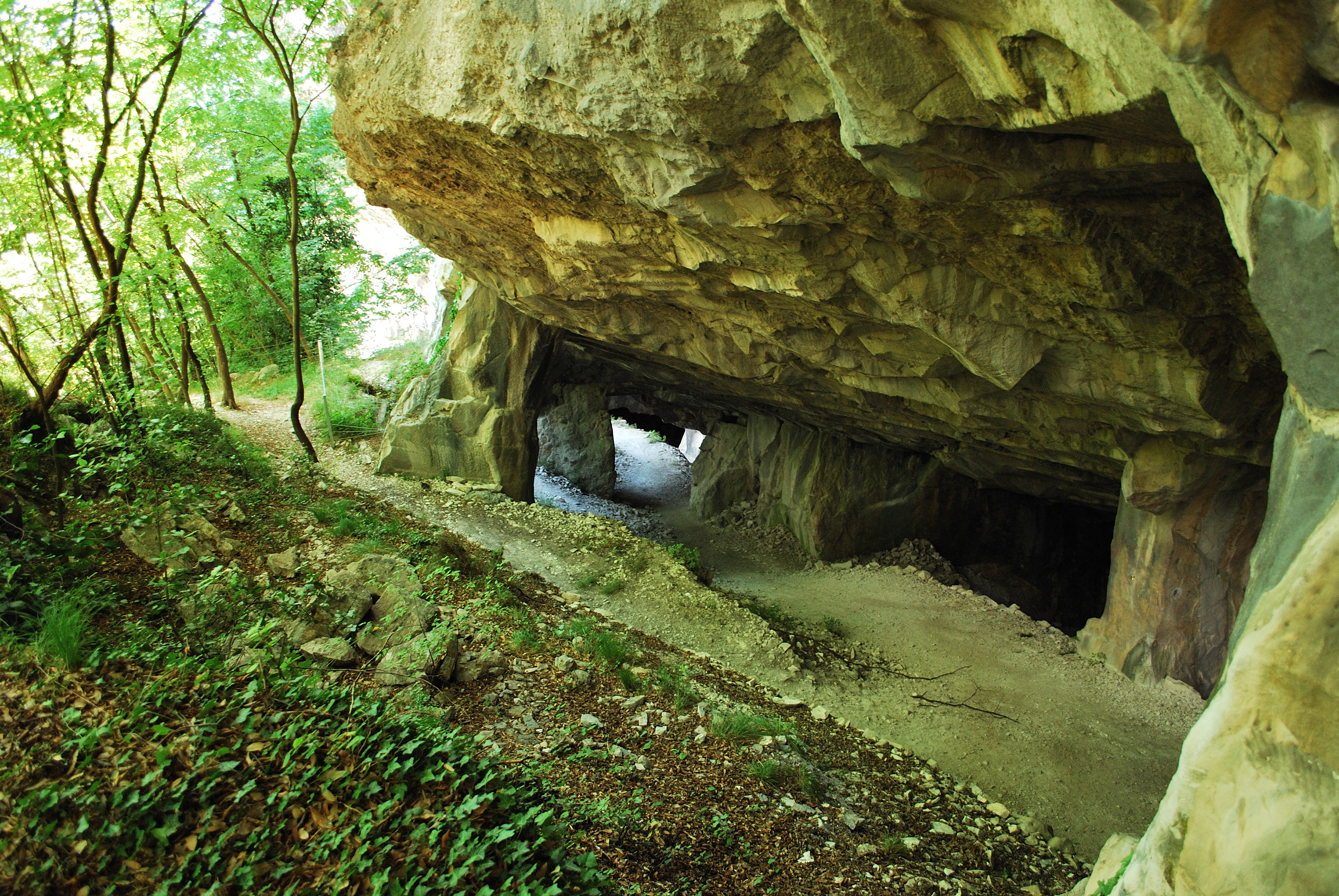 oolitic limestone quarry near Arco Trentino Italy